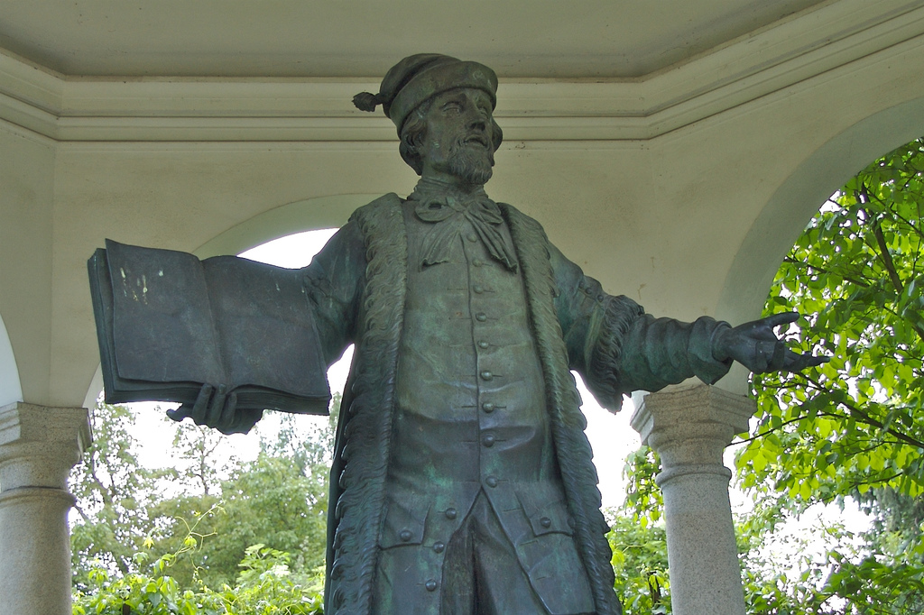 Statue of Johannes Kepler in gardens at the Linzer Schloss. Kepler lived and worked in Linz (from 1612 to 1630), and a university there bears his name.